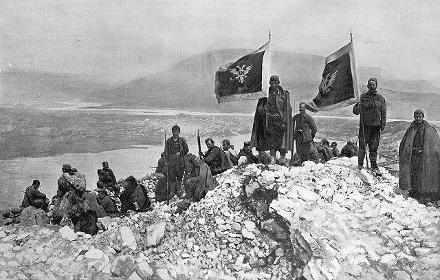 Montenegrin flags on Mt. Tarabosh during the First Balkan War